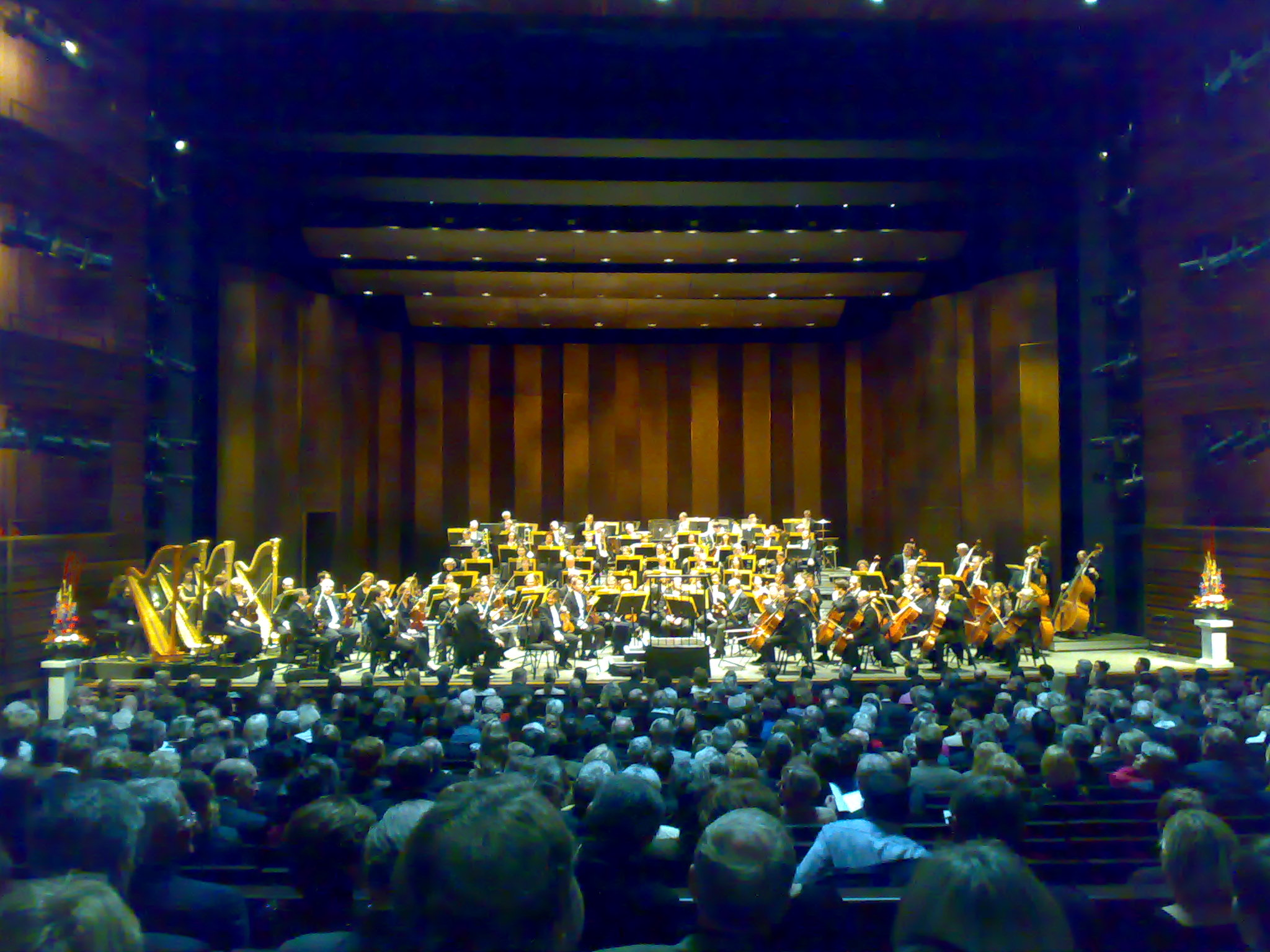 Concert at Den norske opera, Oslo, Norway